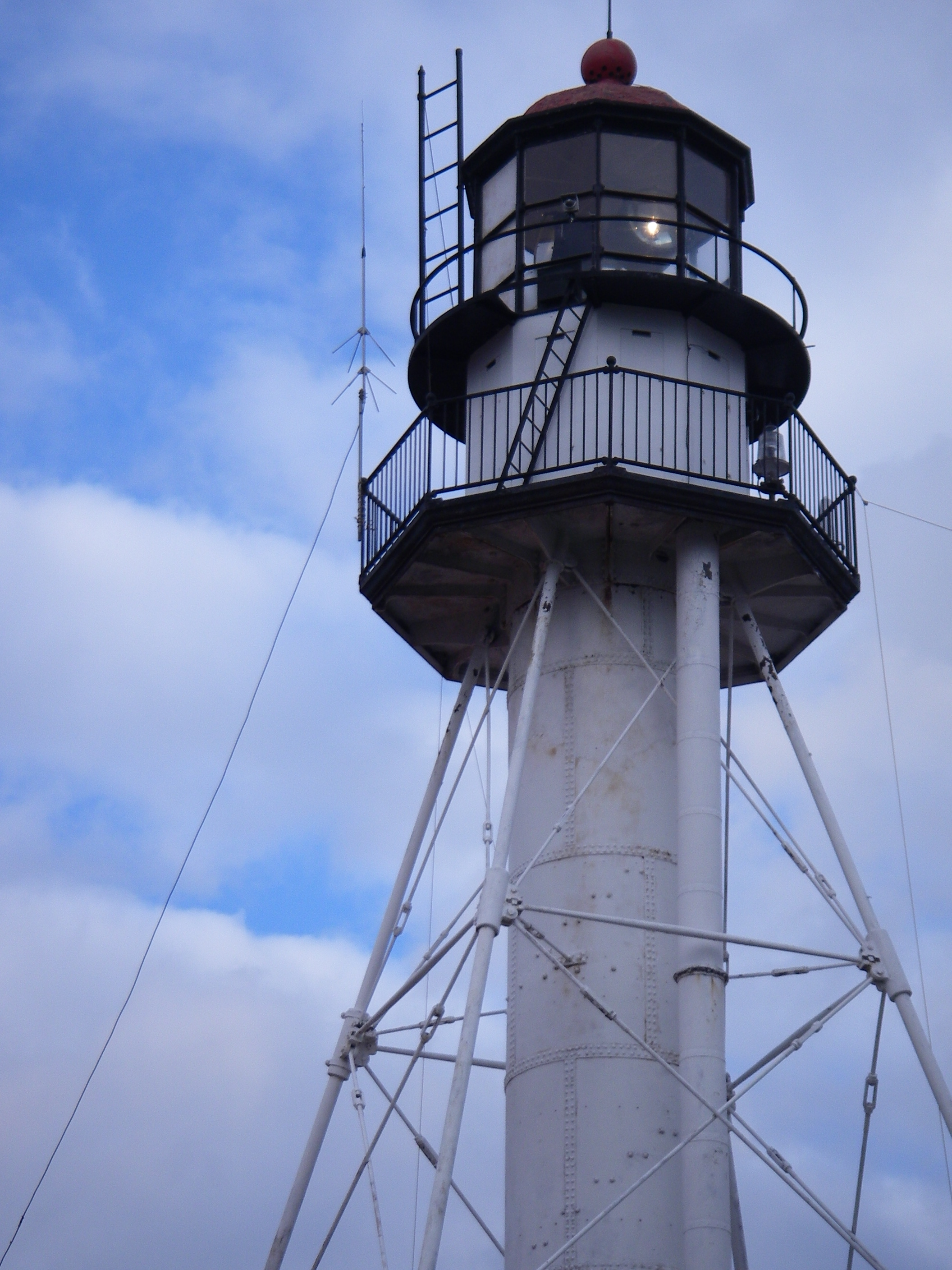 The light tower at the Whitefish Point Light Station, a site on the National Register of Historic Places